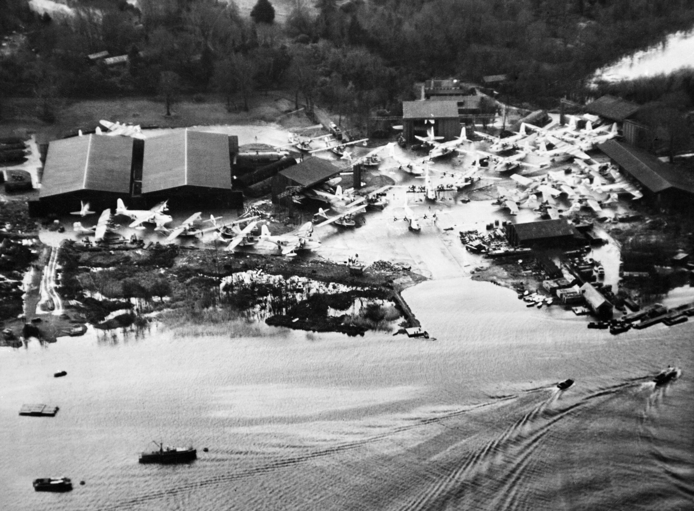 Sunderland and Catalina flying boats of RAF Coastal Command at Castle Archdale in Northern Ireland, January 1945. The big freeze. Nearly all the aircraft on strength with three Coastal Command squadrons are visible here, drawn up out of the water at Castle Archdale in Northern Ireland as Logh Erne froze over in January 1945. More than 30 aircraft can be seen, including Sunderlands of No's 201 and 423 RCAF Squadrons and No 202 Squadron's Catalinas.